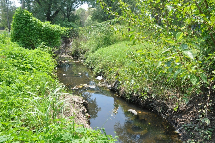 Vista del Cauce Viejo del Riachuelo. Villa Riachuelo, Ciudad de Buenos Aires.